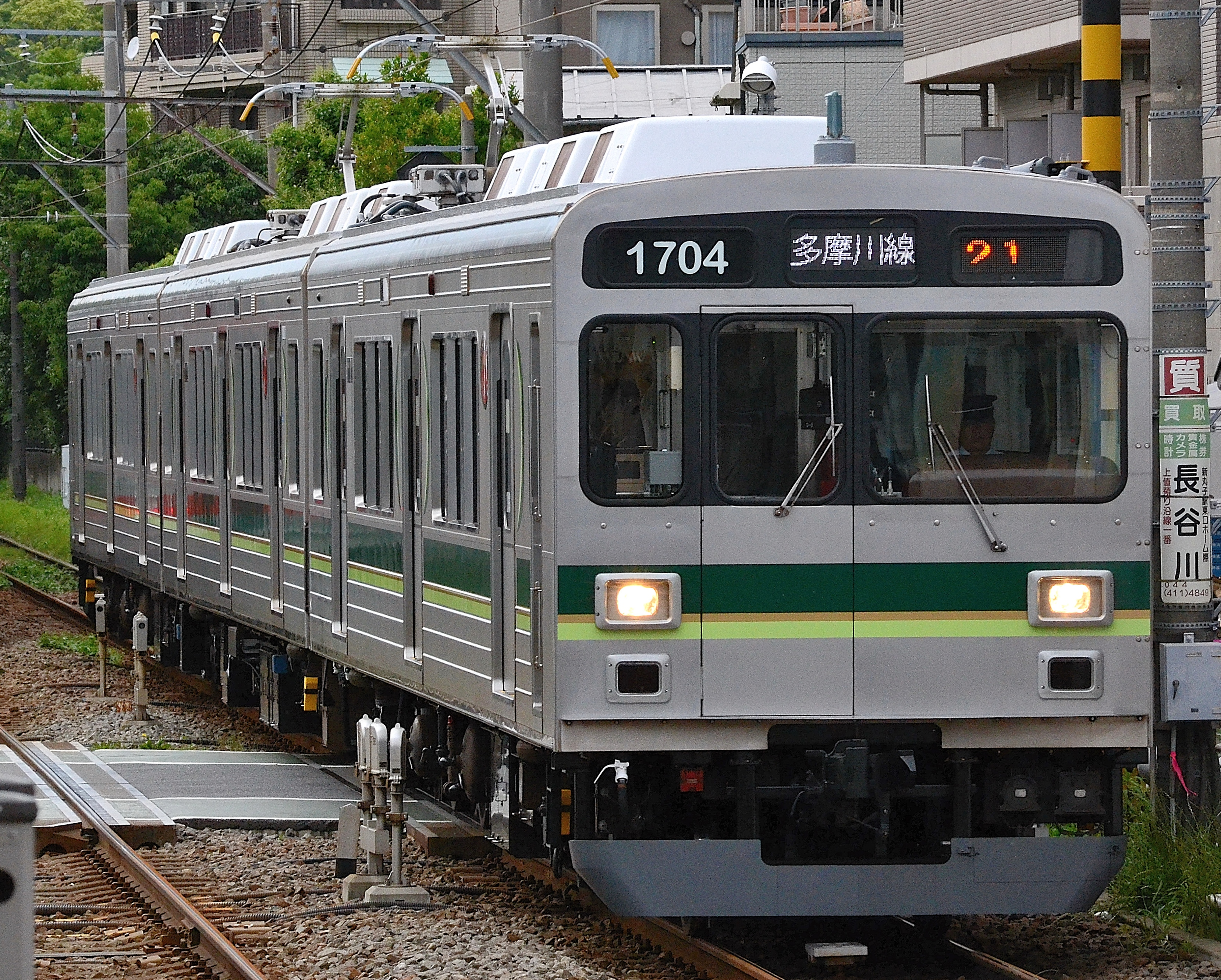 Tokyu 1000-1500 series 3-car EMU set 1504 on a Tamagawa Line service